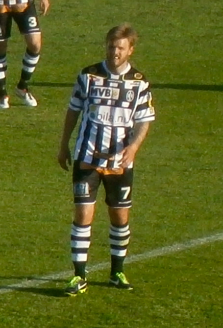 Andreas Dahl playing for Landskrona BoIS in a match against Falkenbergs FF.